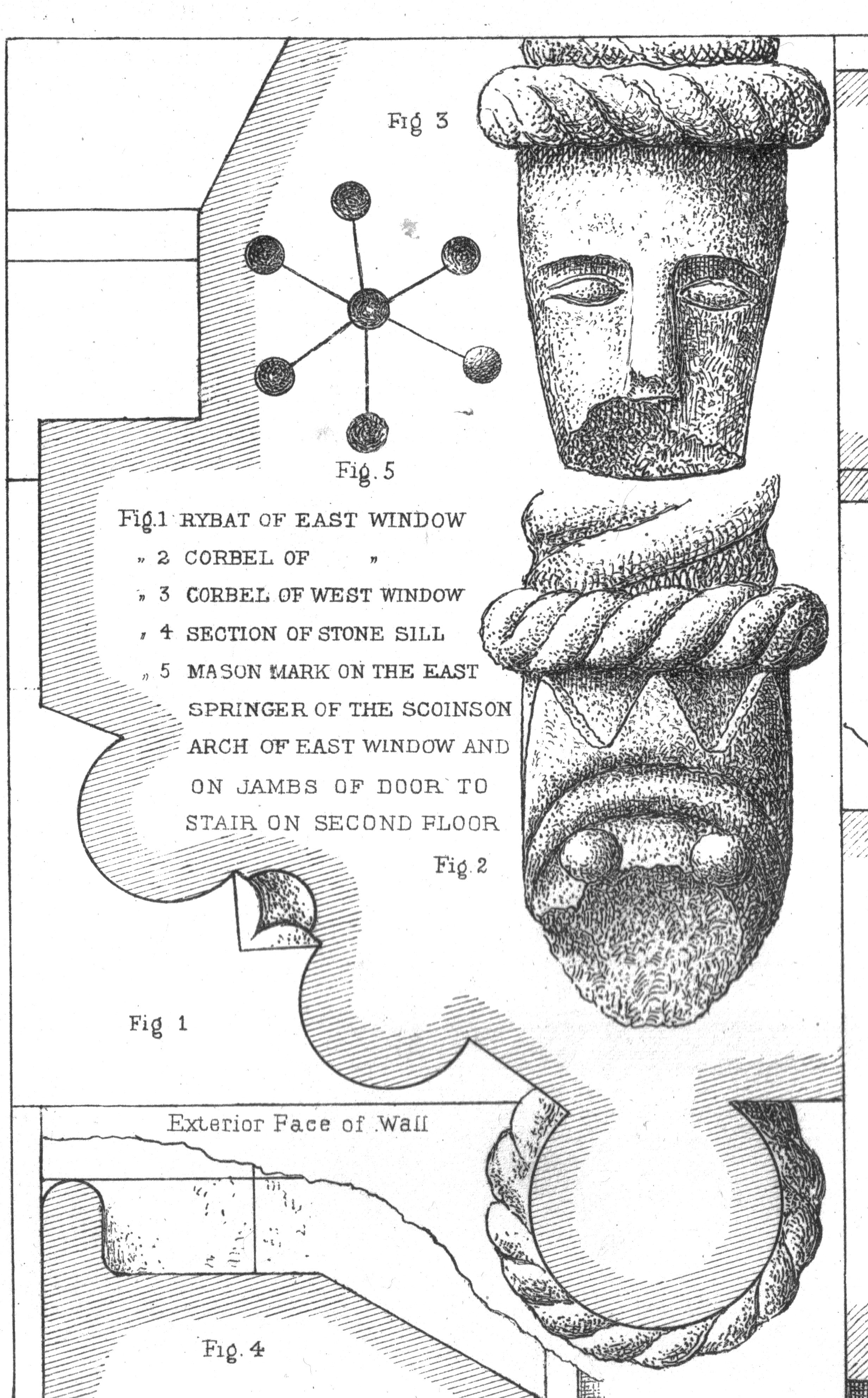 Masons marks, door jambs, face carvings from Seagate Castle, Irvine, North Ayrshire, Scotland